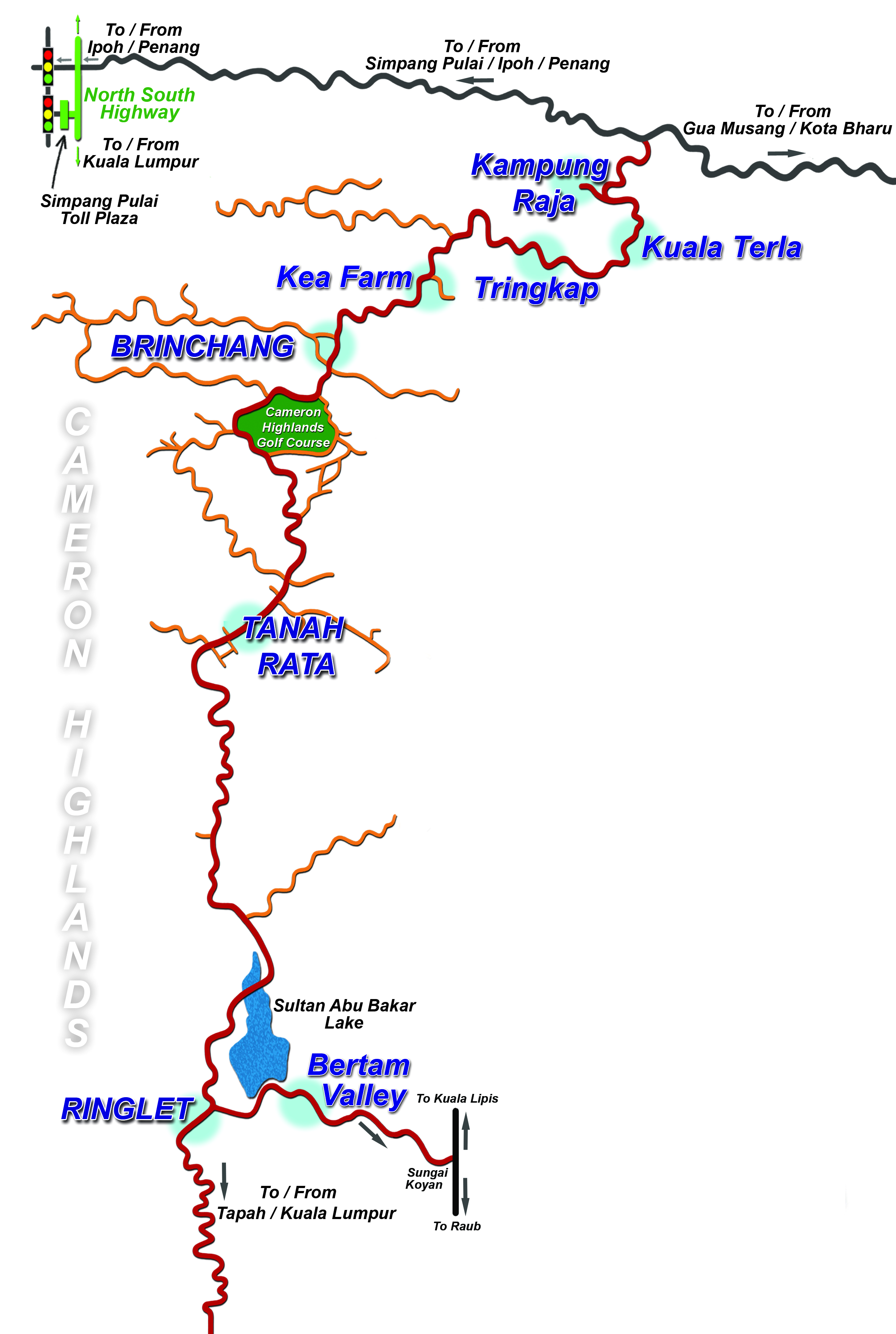 Sketch map of Cameron Highlands, Pahang, West Malaysia.